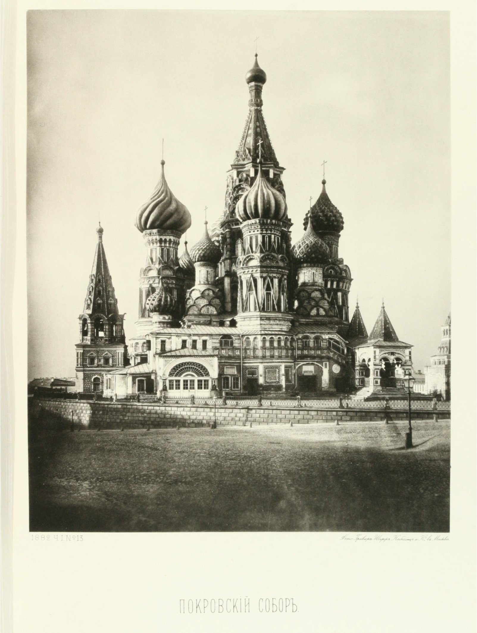 Intercession cathedral, Moscow.